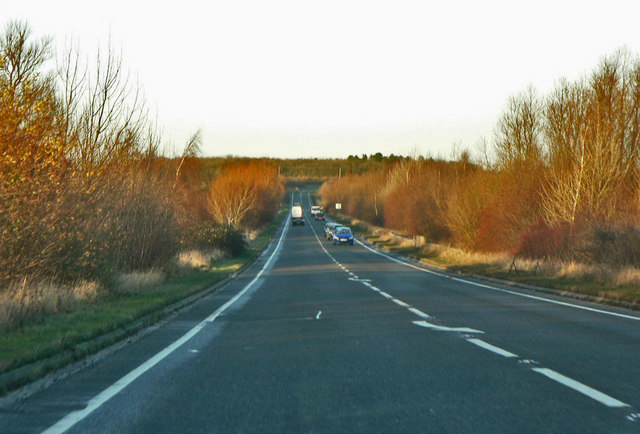 Approach to Holdingham Roundabout on the A15